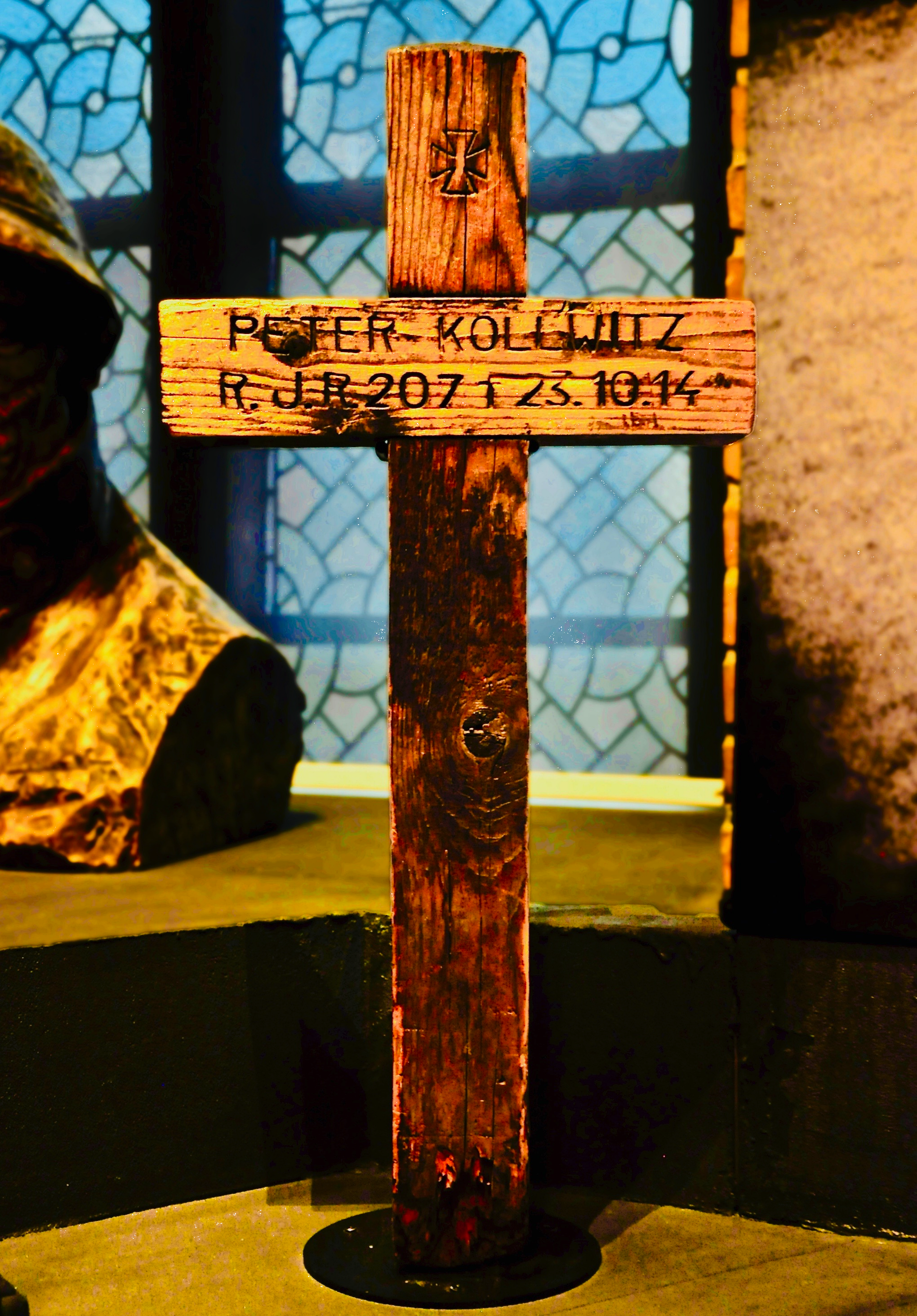 The photo shows an earlier grave cross for Peter Kollwitz (1896-1914), possibly from the former German military cemetery Esen Roggeveld in West Flanders, Belgium, but not the first one. According to his close friend and regimental colleague Hans Koch (1897–1995), this one bore the inscription: »Here died the hero's death for his fatherland Peter Kollwitz, war volunteer Res. Inf. Reg. 207«. The pictured wooden grave cross with the inscription »Peter Kollwitz R.J.R. 207 † 23.10.14« (R.J.R. = Reserve Infantry Regiment) is part of the permanent exhibition of the In Flanders Fields Museum in Ypres, West Flanders, Belgium.